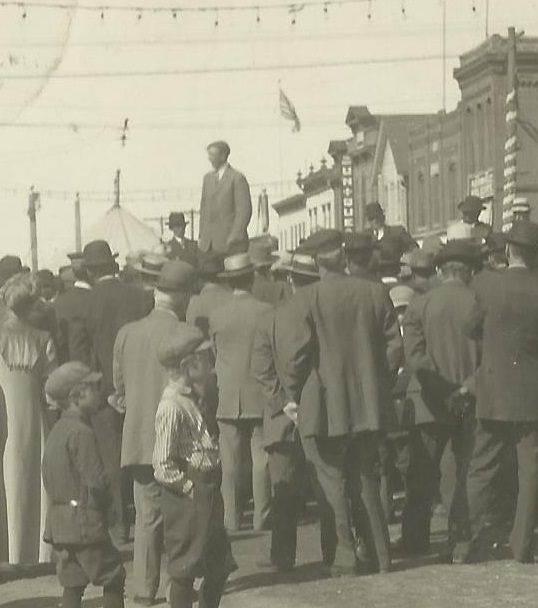 "The Olson Studio" postcard mailed 7 October 1913 showing Governor Adolph Olson Eberhart speaking at the Goodhue County Fair in Zumbrota, Minnesota, United States.